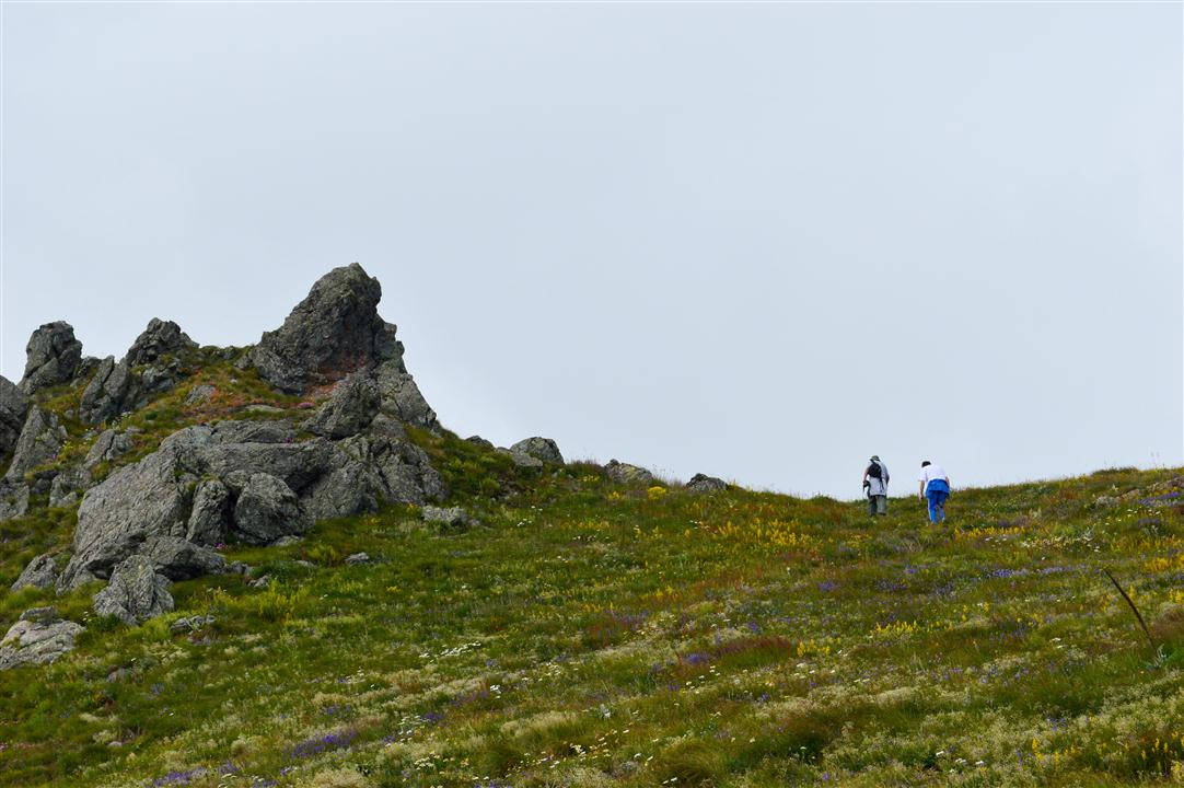 Raska Municipality - Kopaonik